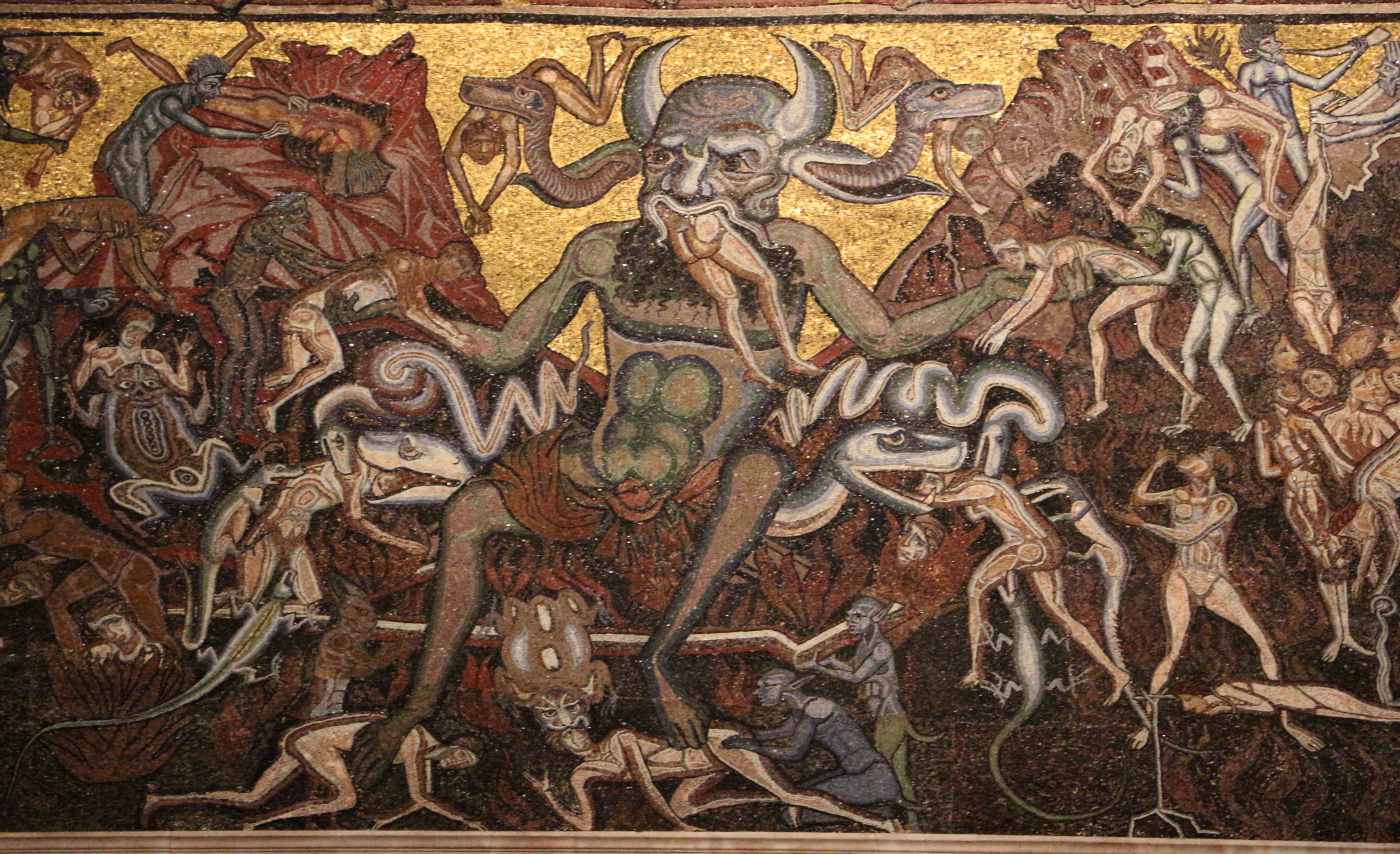 Hell in the Florence Baptistry mosaics